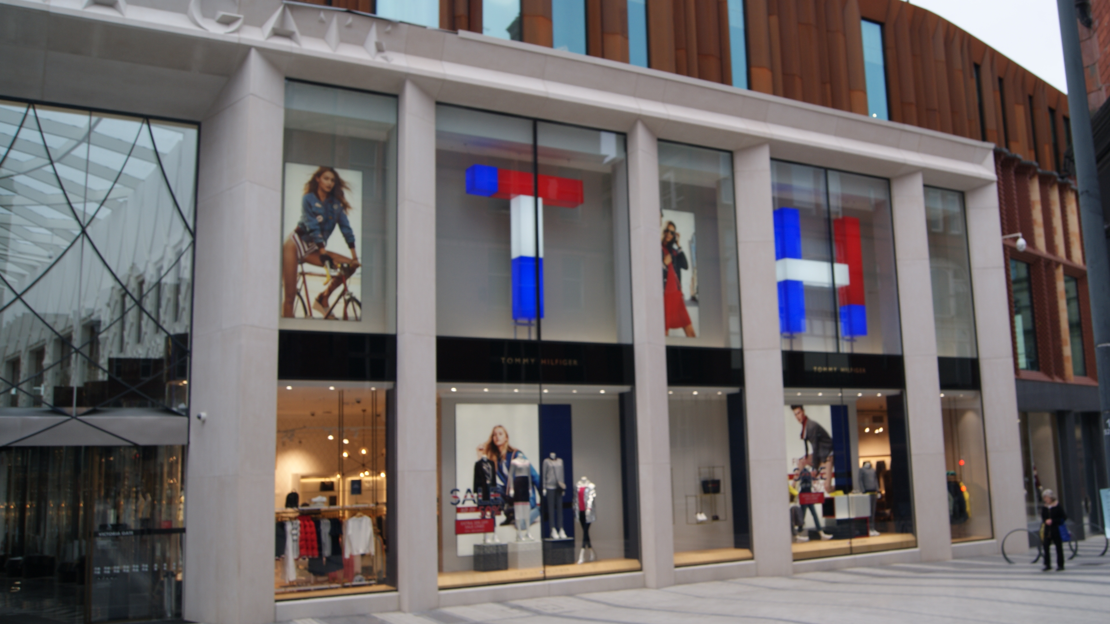 Tommy Hilfiger, Victoria Gate, Leeds, West Yorkshire. Taken on the evening of Friday the 25th of October 2017.